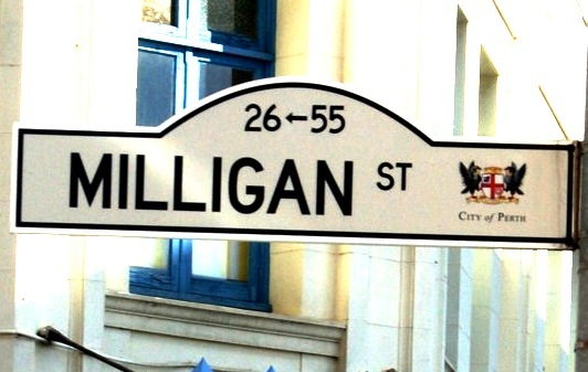 City of Perth Milligan Street sign, corner Murray Street, Perth